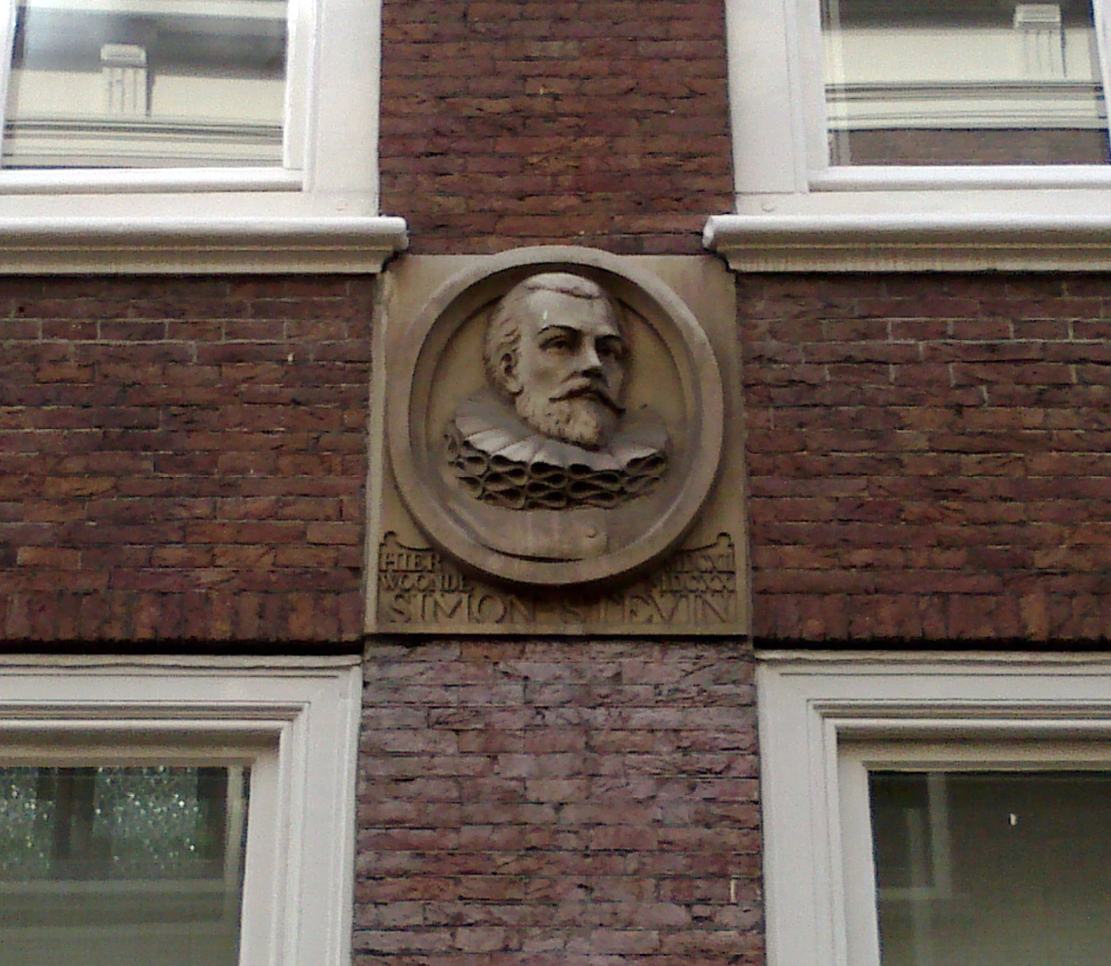 Raamstraat 47, The Hague. Building with Louis XIV façade with cornice on carved consoles, beautifully decorated entrance. Memorial stone for Simon Stevin, who lived here from 1612 to 1620.